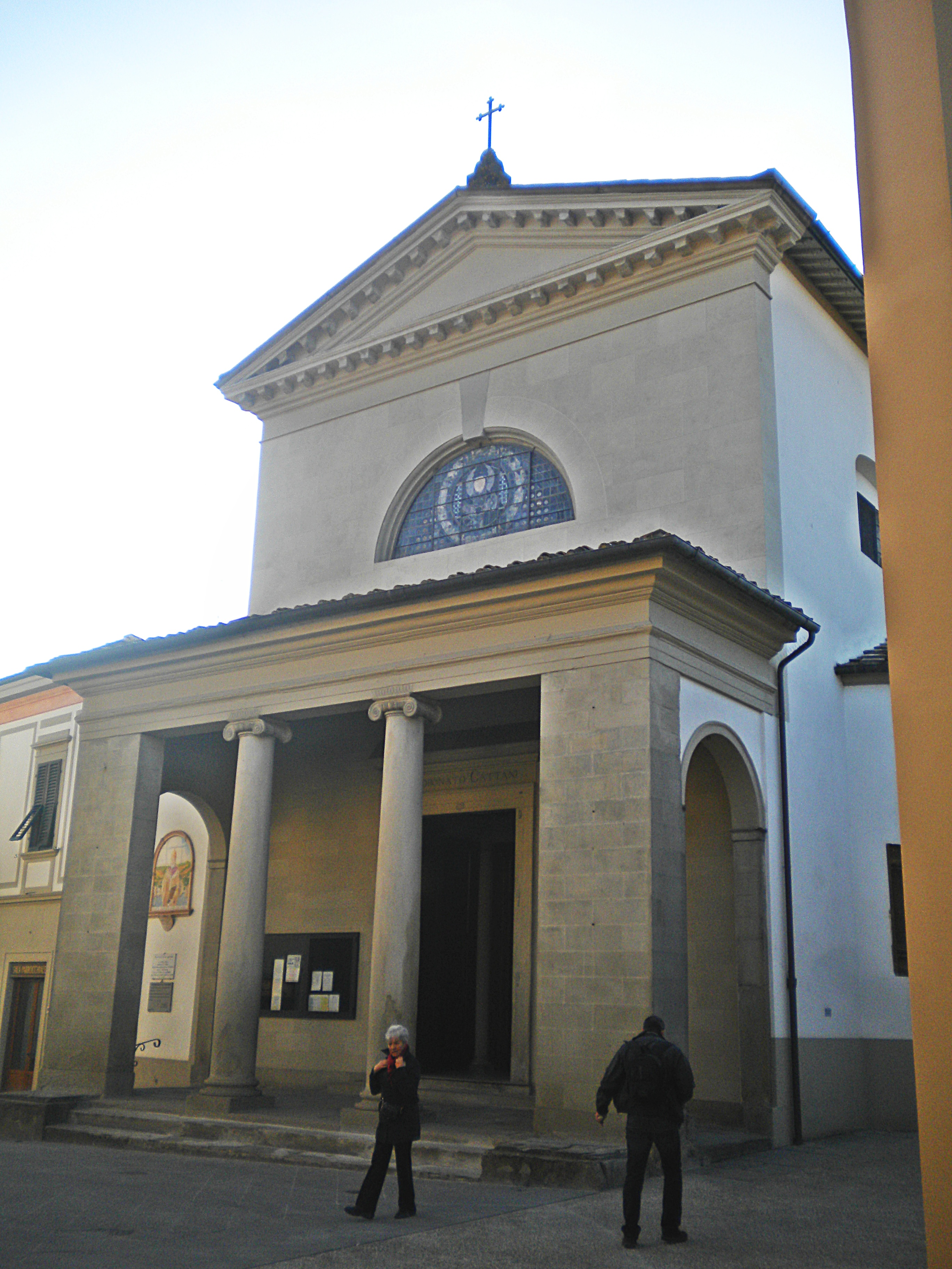 facade